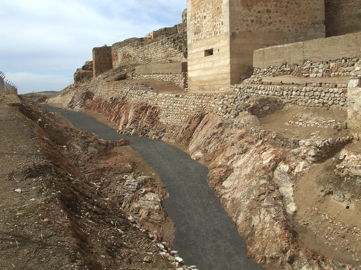 Calatrava la Vieja (Ciudad Real). Spain. Wall and dicht sud.